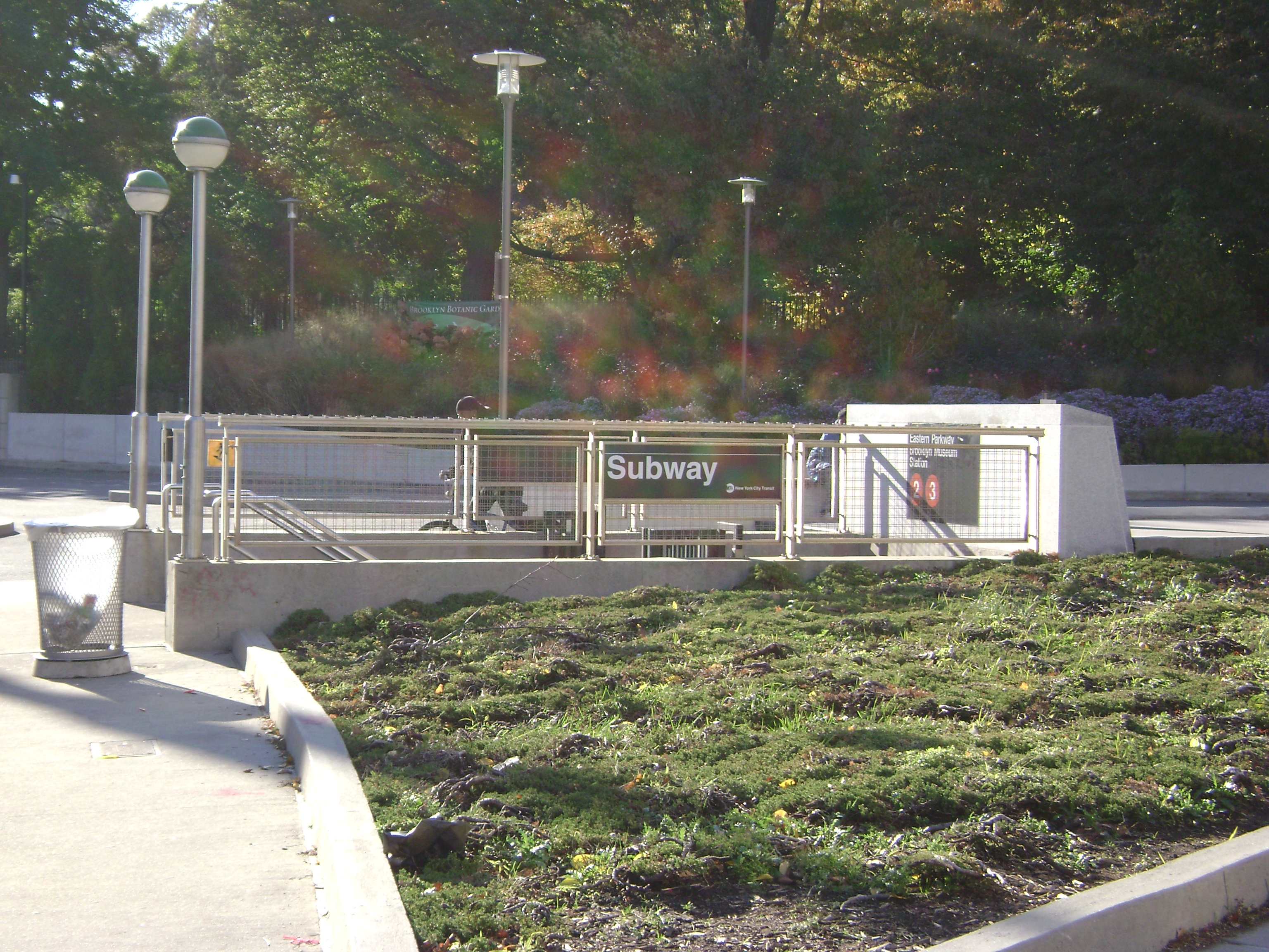 Looking southwest at the Eastern Parkway-Brooklyn Museum station entrance. Northwest corner of museum grounds.